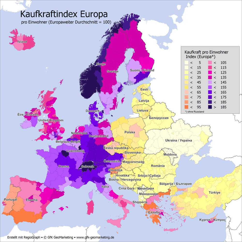 Regional per-capita purchasing power in European countries other than Russia